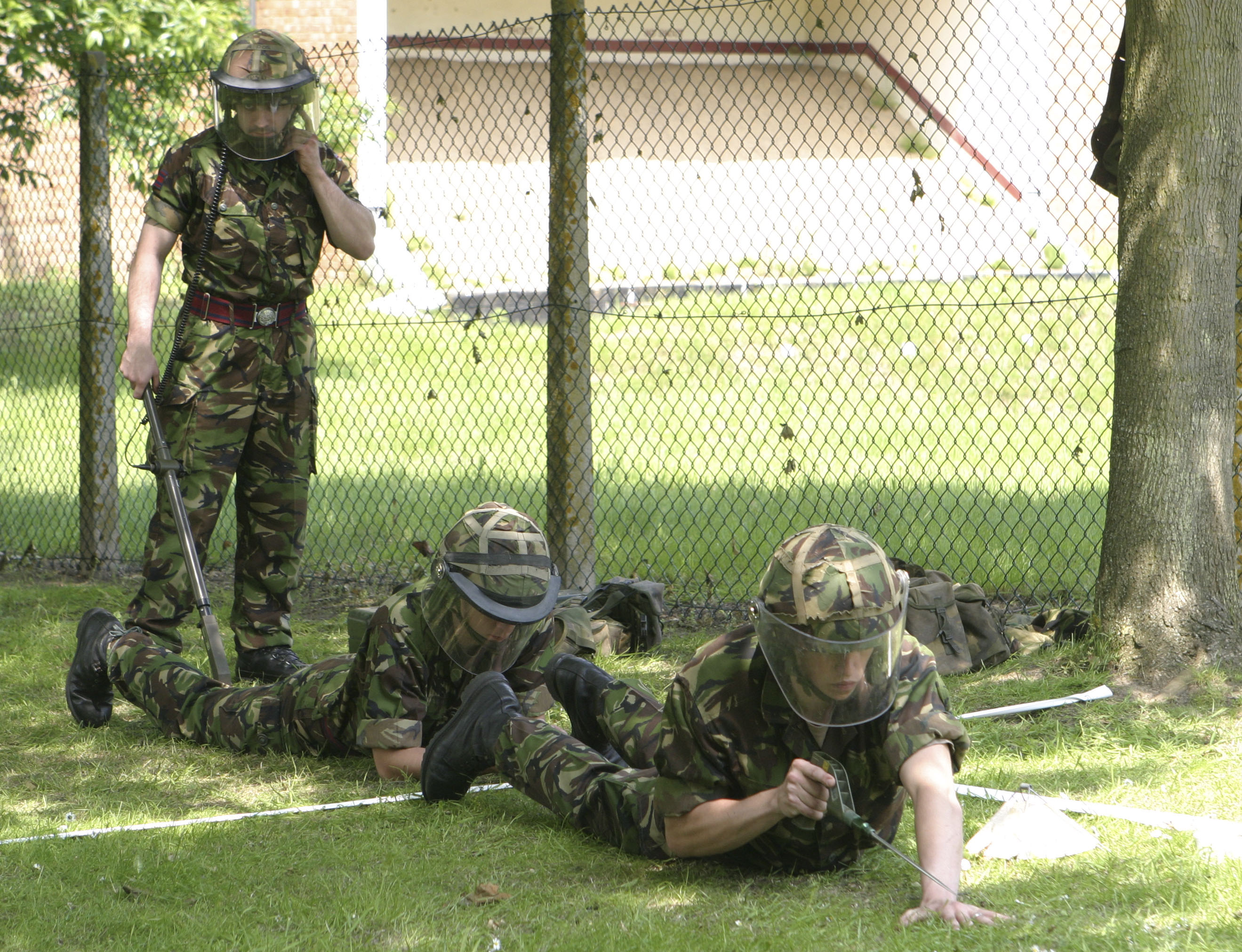 British Engineers from 36 RE Regt, 20th Fd Sqn demining a path for a show